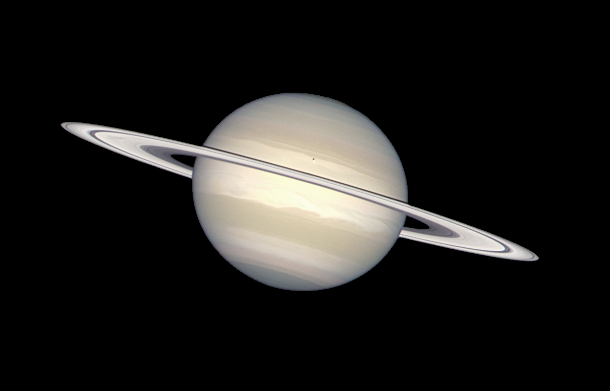 The NASA/ESA Hubble Space Telescope has provided images of Saturn in many colors, from black-and-white, to orange, to blue, green, and red. But in this picture, image processing specialists have worked to provide a crisp, extremely accurate view of Saturn, which highlights the planet's pastel colors. Bands of subtle color (yellows, browns, grays) distinguish differences in the clouds over Saturn, the second largest planet in the solar system. Saturn's high-altitude clouds are made of colorless ammonia ice. Above these clouds is a layer of haze or smog, produced when ultraviolet light from the sun shines on methane gas. The smog contributes to the planet's subtle color variations. One of Saturn's moons, Enceladus, is seen casting a shadow on the giant planet as it passes just above the ring system. The flattened disk swirling around Saturn is the planet's most recognizable feature, and this image displays it in sharp detail. This is the planet's ring system, consisting mostly of chunks of water ice. Although it appears as if the disk is composed of only a few rings, it actually consists of tens of thousands of thin ringlets. This picture also shows the two classic divisions in the ring system. The narrow Encke Gap is nearest to the disk's outer edge; the Cassini division, is the wide gap near the center.